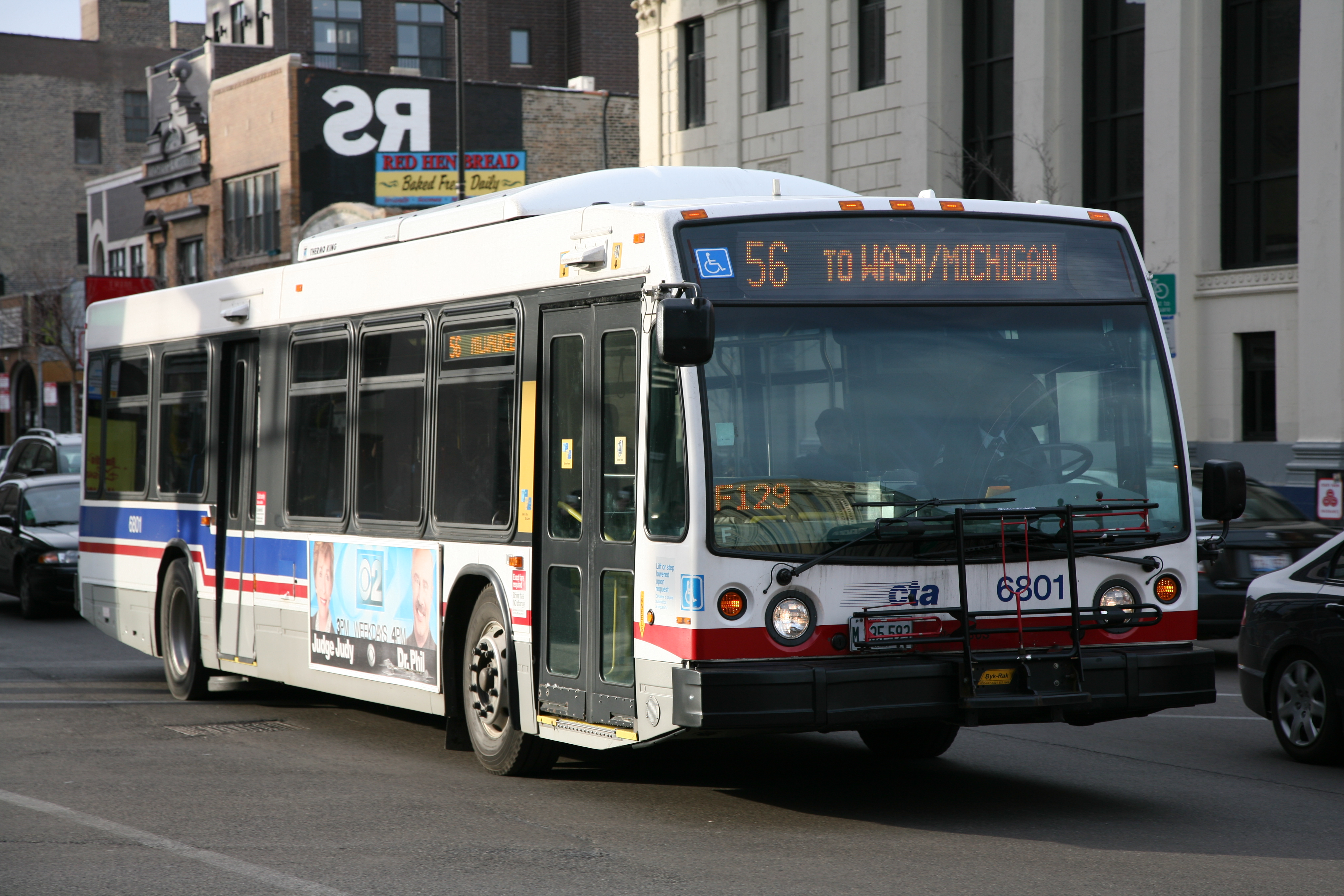 CTA bus line 56.